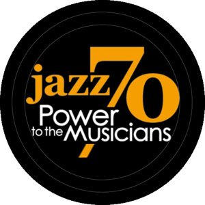 Jazz 70 Logo "Power to the Musicians"